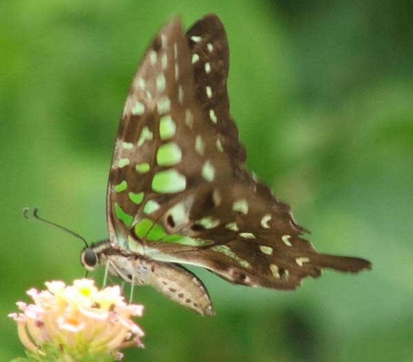 Common Name Tailed Jay Scientific Name Graphium agamemnon Family Papilionidae This photo was shot by Rahul Natu and donated to Wikimedia Commons for use in Indian Butterflies wikibase. Uploaded by Nature Loader with permission of Rahul Natu.